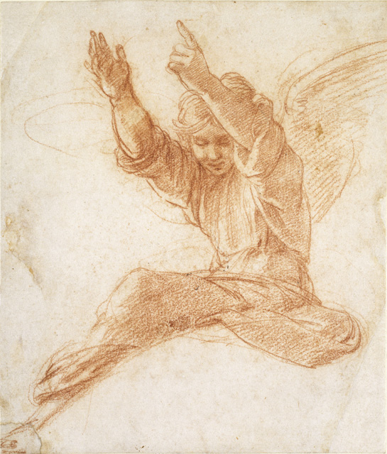 Drawing of an angel by Raphael in the collection of the Ashmolean Museum. Preparatory drawing for the mosaics of the Chigi Chapel in Rome (c. 1510s), the angel above the head of Jupiter.